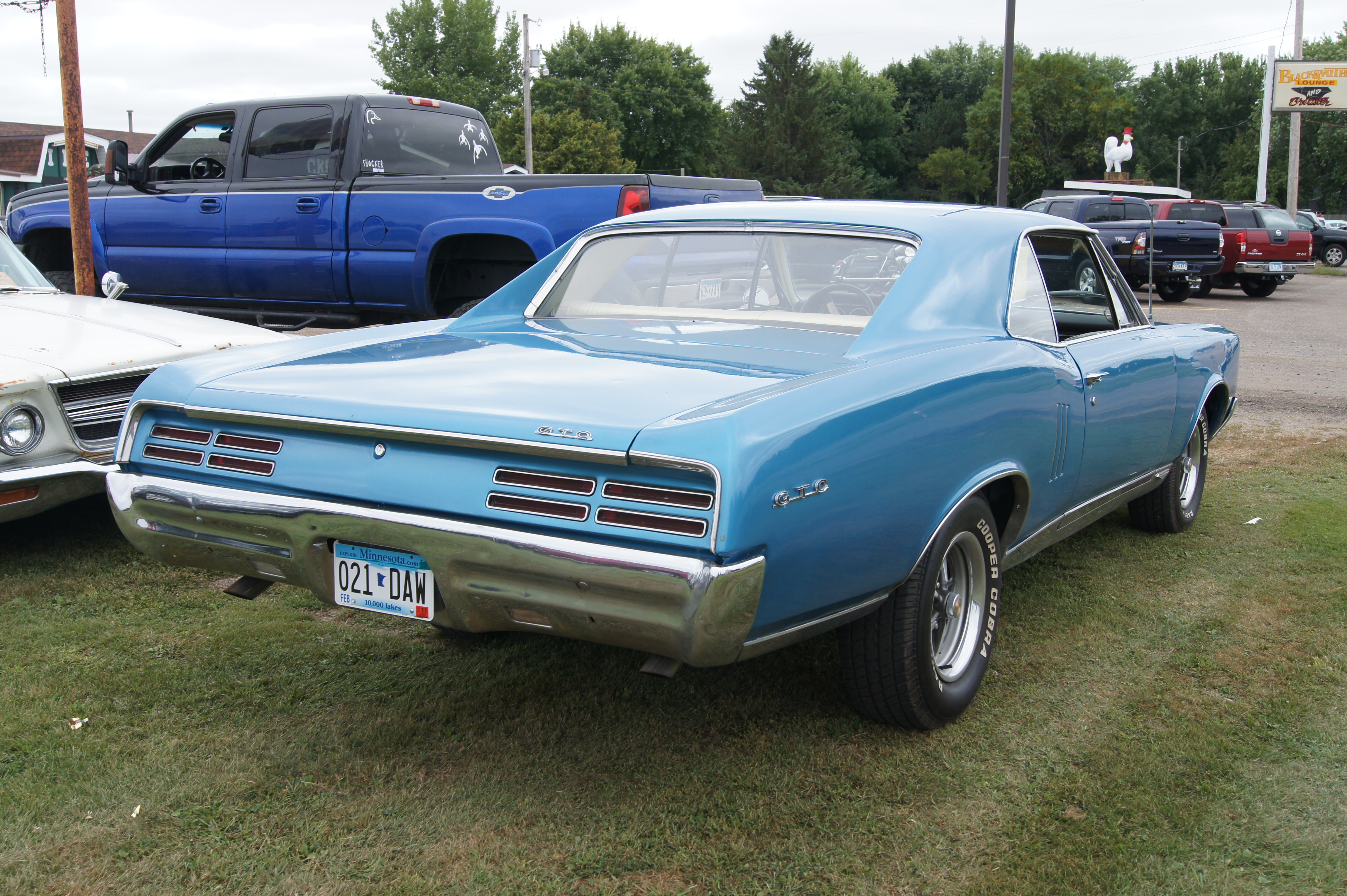 North Star Chapter Studebaker Drivers Club 13th Annual Labor Day Car Show September 2, 2013 Blacksmith Lounge Hugo, MN More Car Pictures